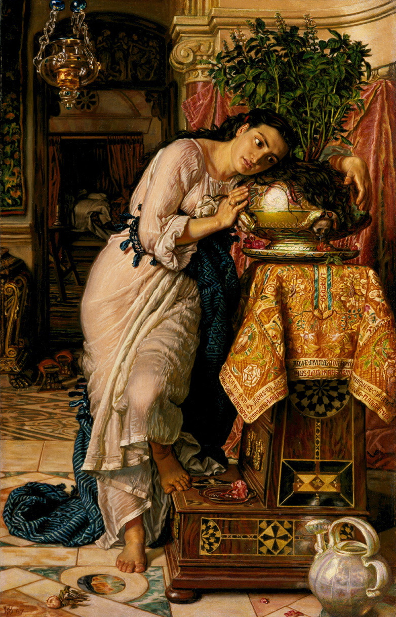 This is a replica painted by Hunt within a year of the larger original (now in the Laing Art Gallery, Newcastle on Tyne). This replica is in the Delaware Art Museum in Wilmington, DE.